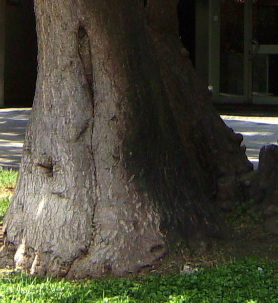 Detail of the trunk basis of Yucca elephantipes in Barcelona, similar to an elephant foot (elephanti pes)